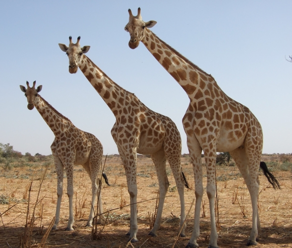 Giraffes in Kouré, Niger. girafe, giraffes, giraffe, niamey, koure, kouré, niger, africa, afrika, afrique, animals, Tiere